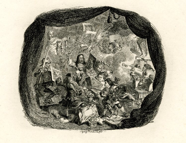 "Battle of Engravers," etching, by the British artist George Cruikshank. 215 mm x 295 mm. The etching was an illustration to Thomas Wilson's "A Catalogue Raisonné of the Select Collection of Engravers of an Amateur." (Plate 44). The print shows a mêlée, with three pairs of contestants squared off against each other. These include the well-known engravers: William Hogarth; Antoine Masson; William Woollett; J. J. Baléchou; and Albrecht Dürer; and Marcantonio Raimondi. Image courtesy of the British Museum, London.